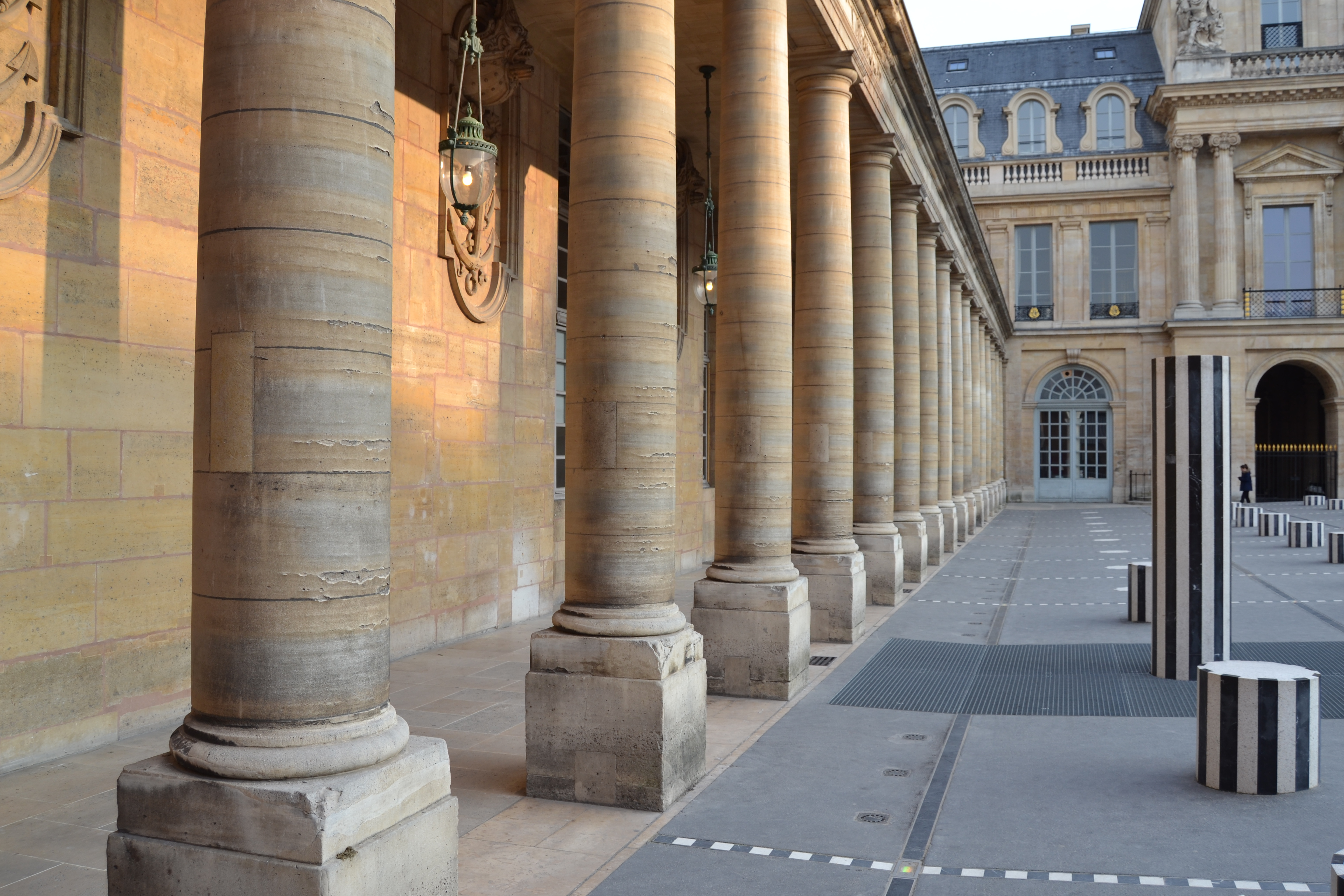 Paris, France: Galeries du Palais Royal